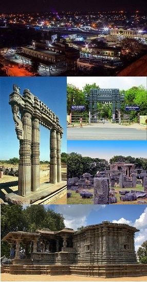 Montage of Warangal city images.